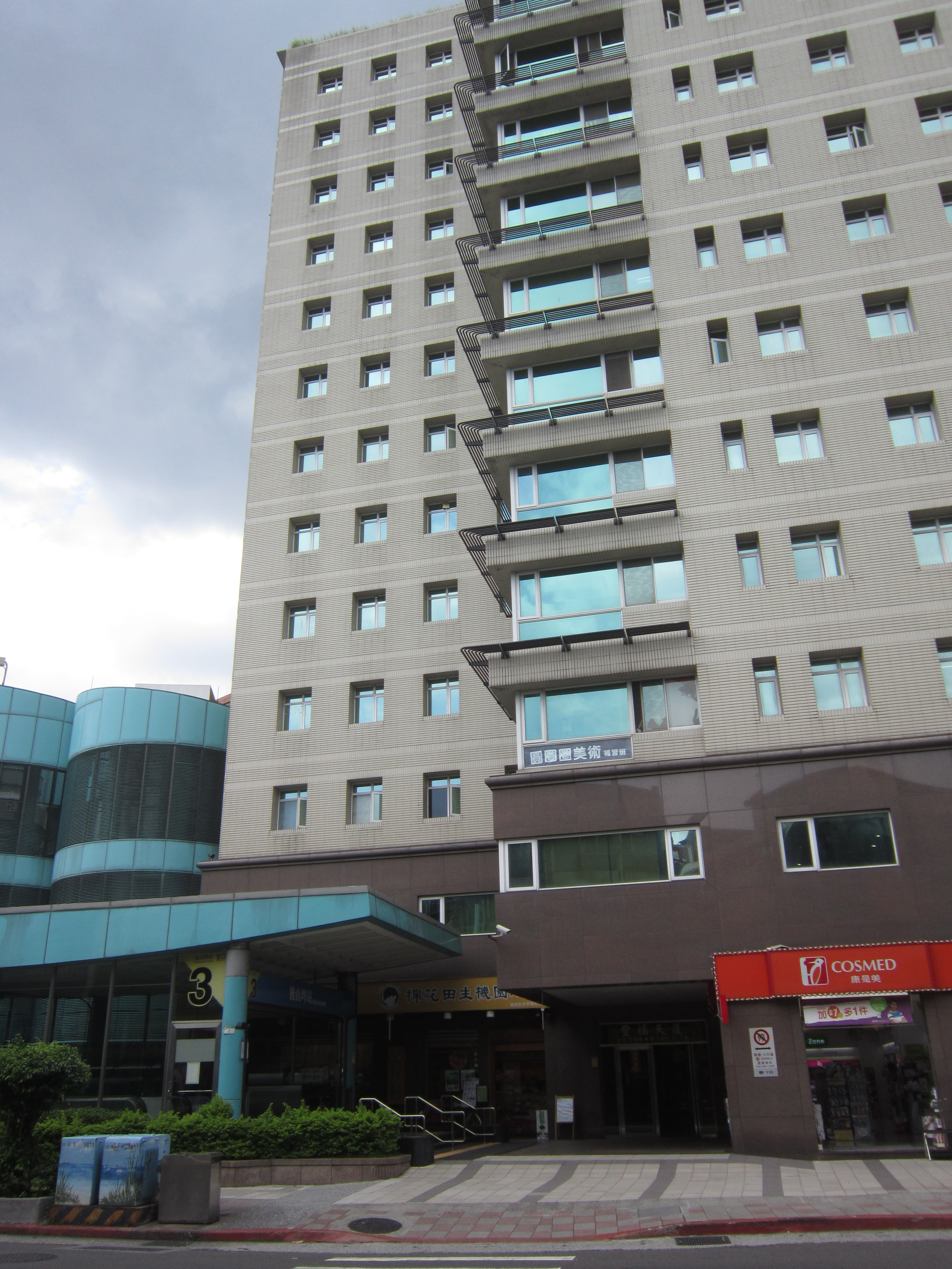 Houshanpi_Station_Exit3